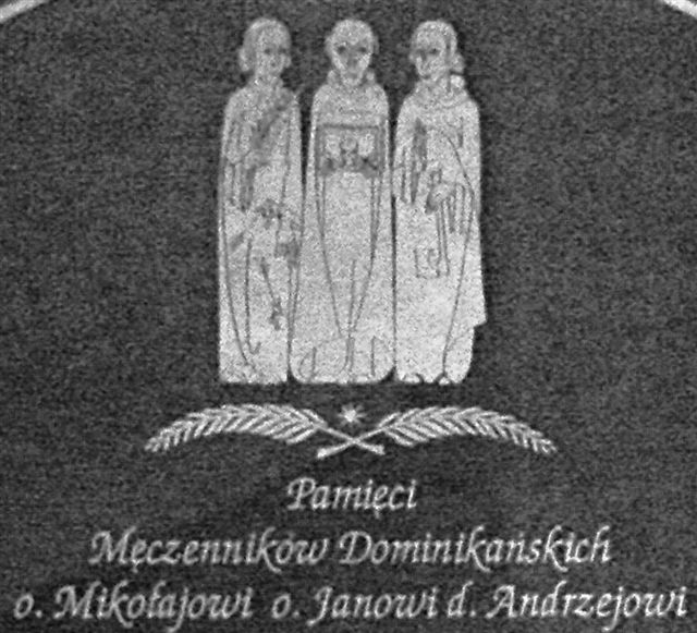 Dominicans Martirs from Zabkowice Slaskie PL